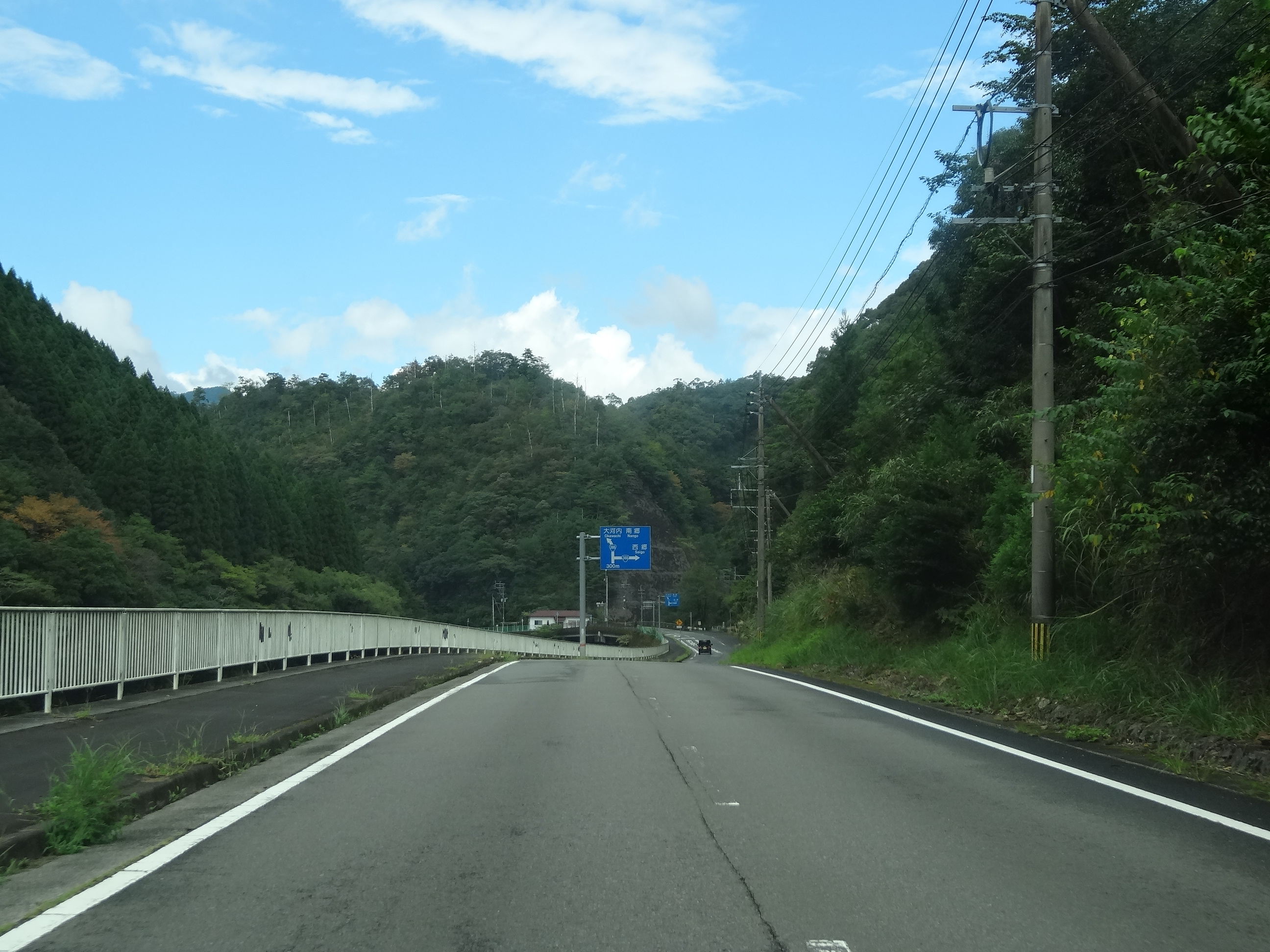 National Route 446 in Nango-ku, Misato Town, Miyazaki Prefecture, Japan.